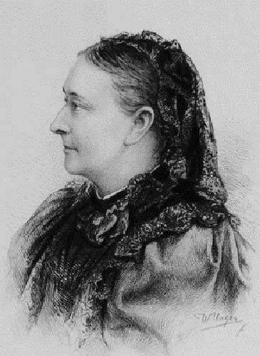 E. G. Volkonskaya. Engraving of V. Ungern, XIX century